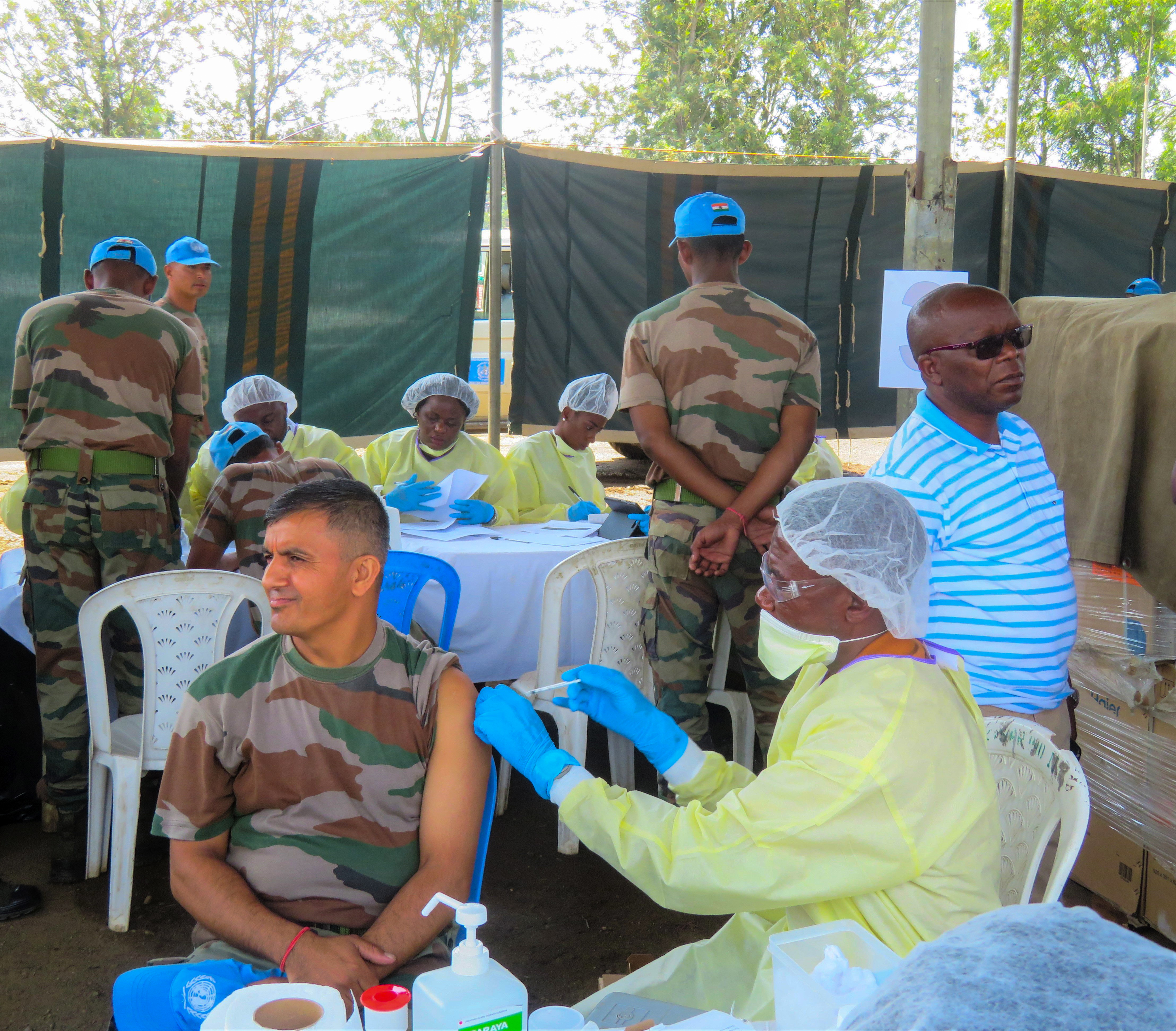 Pinga, Nord Kivu, RD Congo : Prêchant par l’exemple, les Casques bleus indiens se font vacciner contre la maladie à virus Ebola, lors d’une mission dans le village de Pinga. Ce geste a renforcé la confiance des habitants et apaisé leurs appréhensions face au vaccin. Photo MONUSCO / Force Pinga, North Kivu, DR Congo. Leading by example, Indian Peacekeepers get vaccinated against Ebola during a mission the village of Pinga. This gesture boosted the confidence of the locals and allayed their apprehensions about the vaccine. Photo MONUSCO/Force.